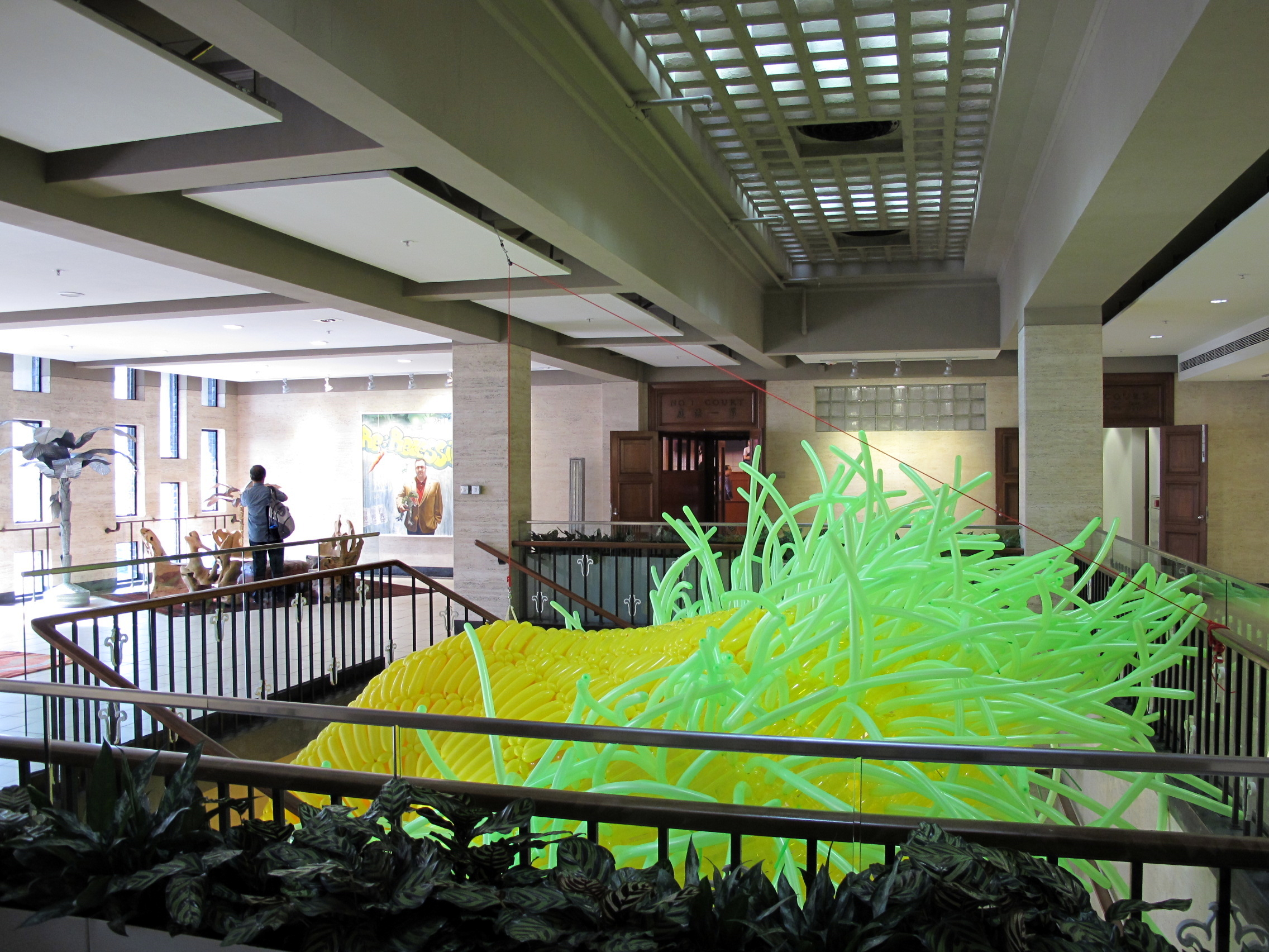 North Kowloon Magistracy Lobby